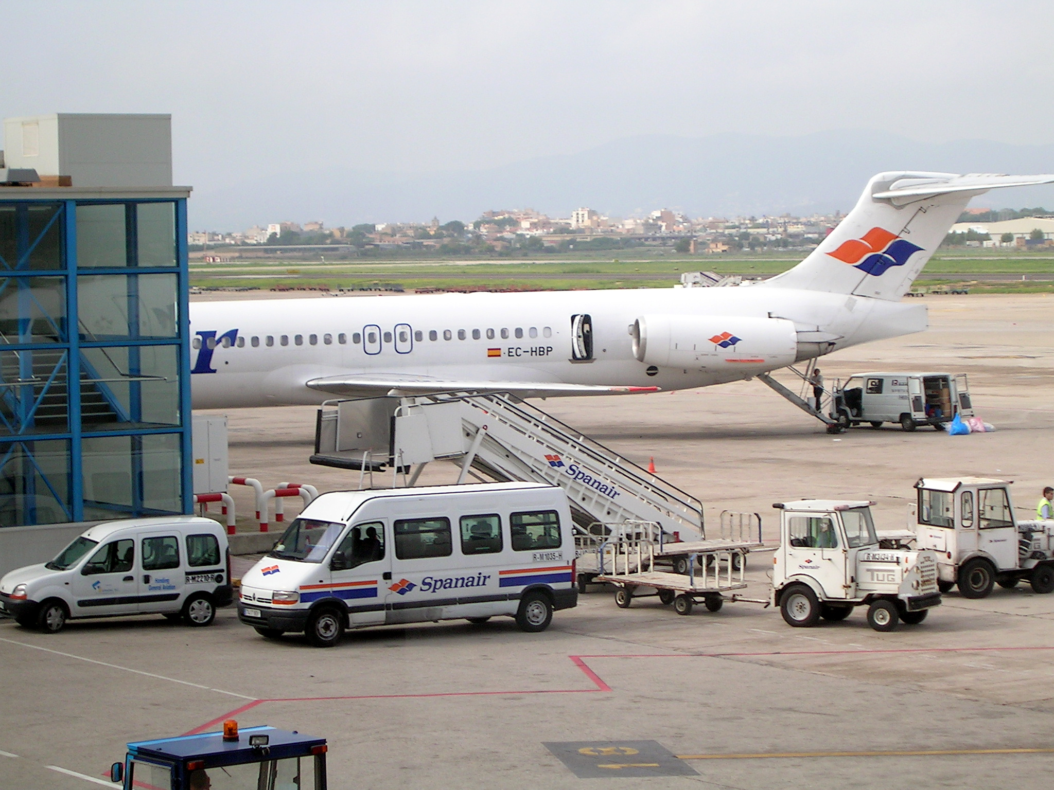 Spanair MD-83 (EC-HBP), Mallorca, Flughafen, Palma.